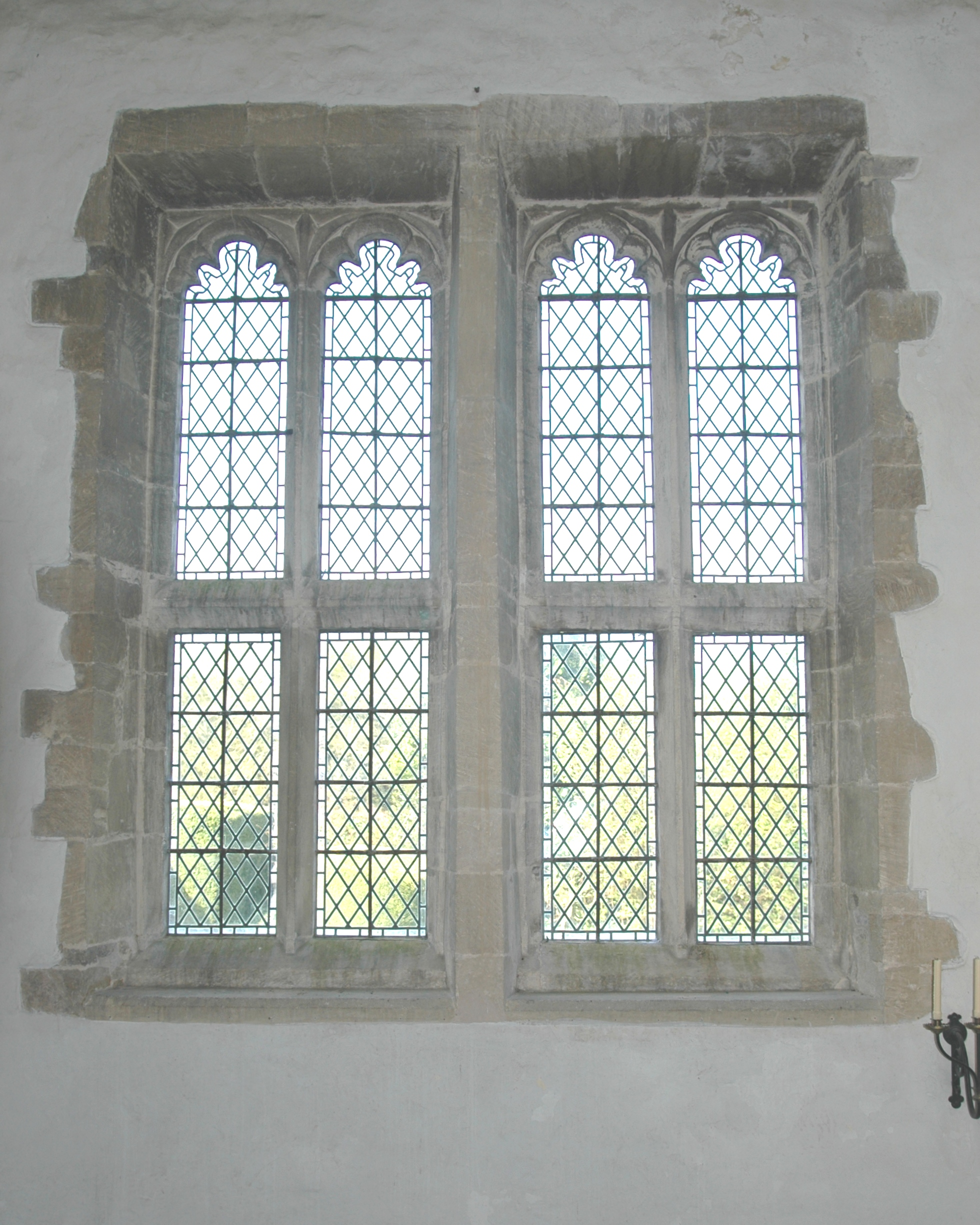 Church of England parish church of St Leonard & St James, Rousham, Oxfordshire: large Perpendicular Gothic window in north wall of nave.